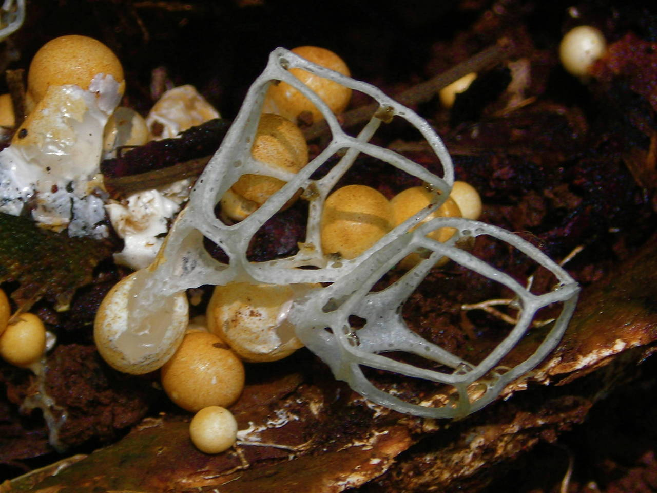 Clathrus delicatus Berk. & Broome (1875) Image location: Mumbai, Maharashtra, India Found by gmuralid growing on a variety of woody debris, teak (Tectona grandis)leaves, and on a broken woody vine. This is the same collection as # 8924. Recognized by sight: Glebifers look like three-legged stools situated singly at the intersections of the upper arms. Used references: Dring, D. M. and R. W. G. Dennis.Â 1980.Â Clathraceae: Contributions toward a rational arrangement of the Clathraceae.Â Reprint from Kew Bulletin Vol. 35 (1).Â Royal Botanic Gardens, Kew, Surry, England.Â 96p. For more information about this, see the observation page at Mushroom Observer.